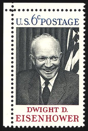 US Postage stamp: DW Eisenhower, Issue of 1969, 6c